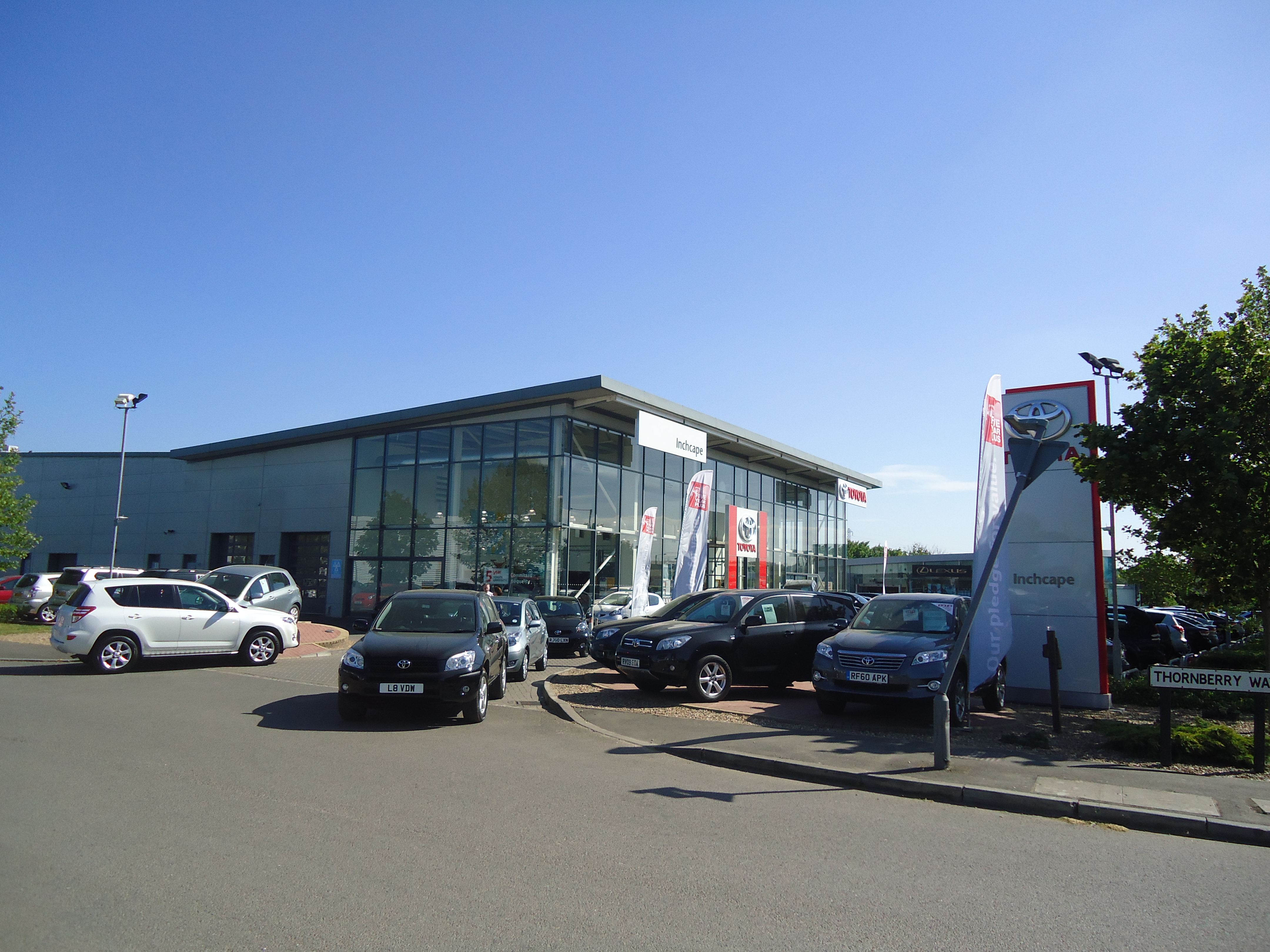 Inchcape Toyota, Slyfield Industrial Estate, Guildford